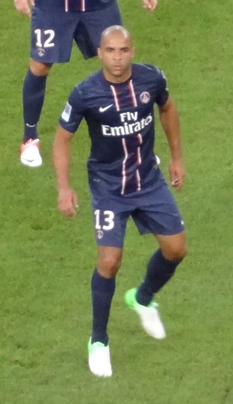 Alex Rodrigo Dias da Costa (PSG)